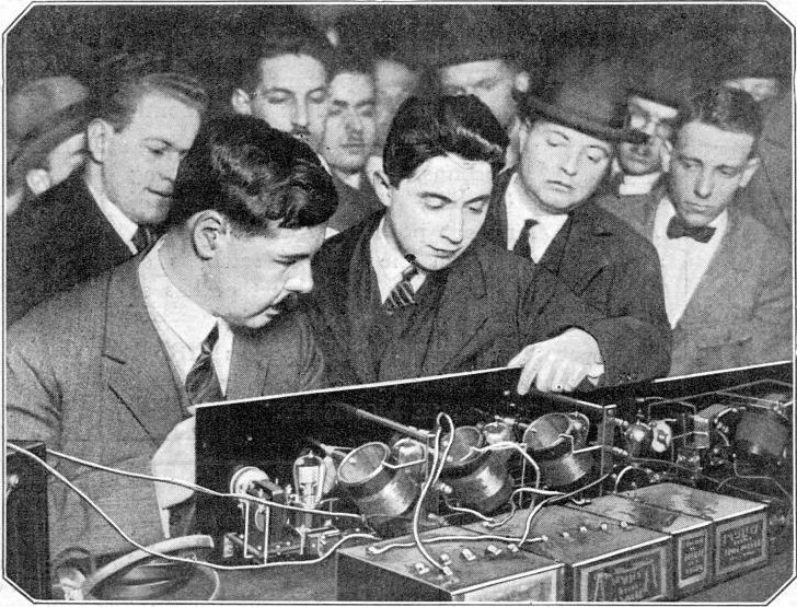 The first neutrodyne radio receiver, presented by Louis Alan Hazeltine in a lecture on March 2, 1923 titled "Tuned radio frequency amplification with neutralization of capacity coupling" to the Radio Club of America at Columbia University, New York. Invented by Hazeltine at Stevens Institute, Neutrodyne receivers were widely sold until they were replaced by superheterodynes in the 1930s. The Neutrodyne circuit was a type of Tuned Radio Frequency (TRF) receiver. In a TRF receiver, the radio signal from the antenna is amplified at its original radio frequency by one or more vacuum tubes before it is rectified in a detector to extract the audio signal. However the triode tubes available at the time had high interelectrode capacitance between the plate and the grid which allowed signal from the output plate circuit to feed back into the grid, causing the tube to oscillate This produced interfering sounds, shrieks, whistles, and groans from the speaker. The Neutrodyne circuit solved this problem by adding a circuit which coupled some of the signal from plate to grid circuit with the opposite phase, canceling the feedback through the interelectrode capacitance. This was usually done with an additional winding on the interstage coupling transformers. Hazeltine's prototype Neutrodyne is shown here, being examined by members of the Radio Club of America. It had five tubes: two stages of RF amplification, a detector, and two stages of audio amplification. The interstage coupling coils between the tube stages that provide the neutralizing signal are visible, mounted diagonally, between the tubes. The rectangular objects in foreground are "B" batteries providing the plate voltage, about 45 V, to the tubes. They are special types with multiple taps, allowing the plate voltage to be changed by cutting more or fewer cells into the circuit.